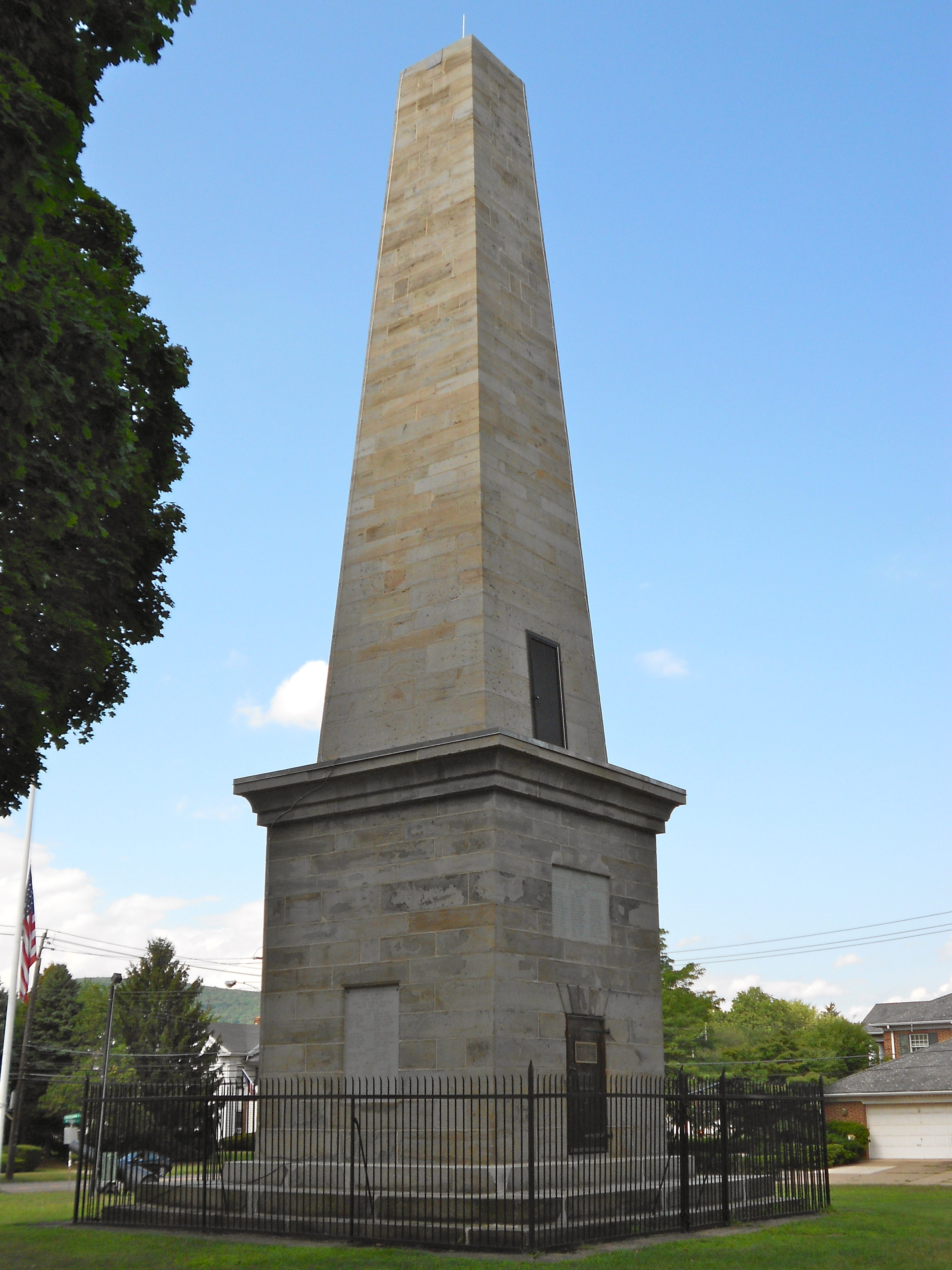 Wyoming Monument, on the NRHP since May 13, 2002. On U.S. Route 11, Wyoming Avenue and Susquehanna Street, Wyoming, Luzerne County, Pennsylvania. Commemorates a Revolutionary War battle where the "Americans" were pretty much wiped out by the British, "Indians" and Tories.